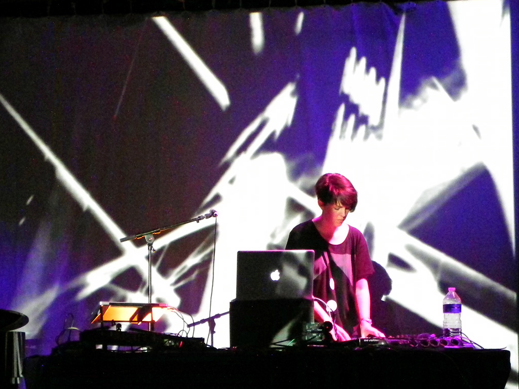 Scottish composer and performer Anna Meredith, photographed in August 2011 at la Carrière de Normandoux, France.